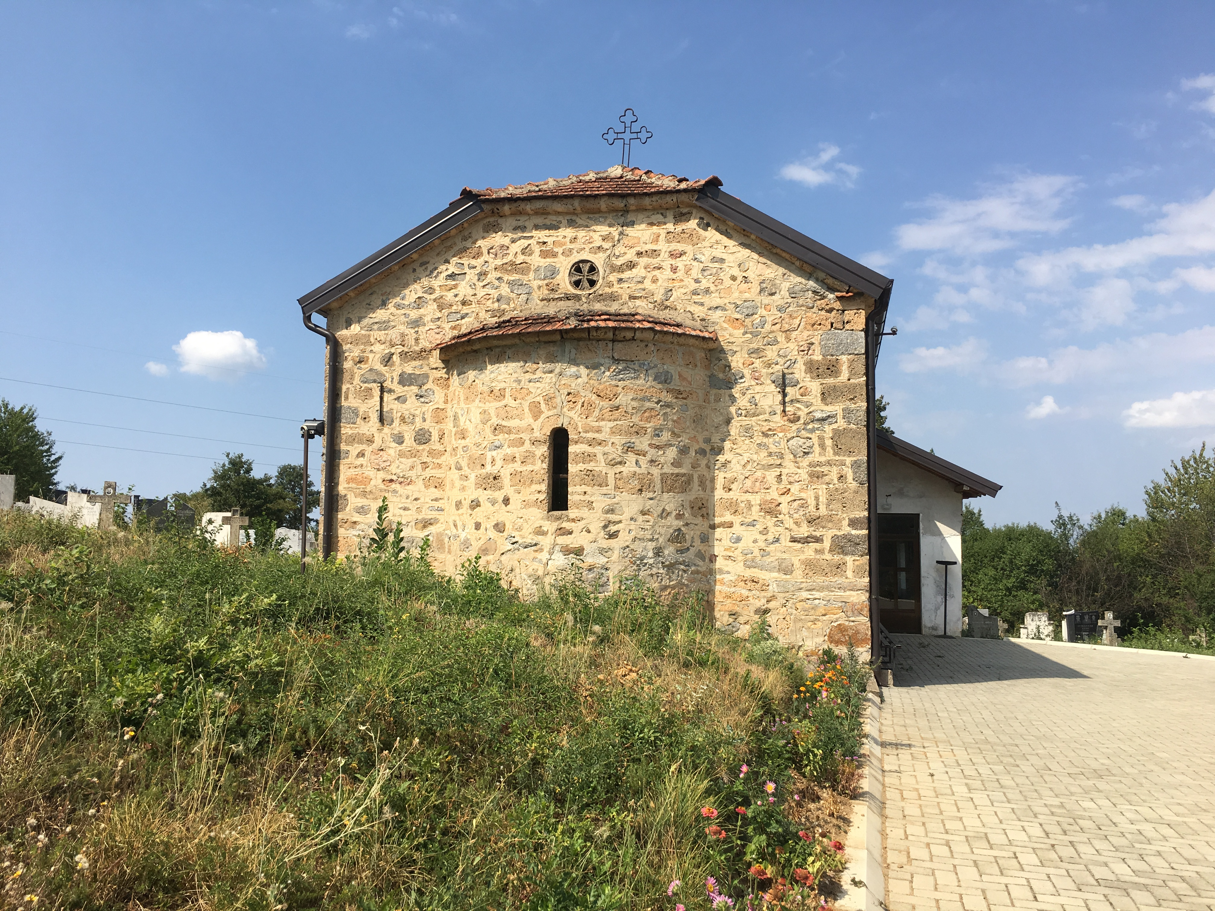 St. Nicholas Church in the village of Sviništa